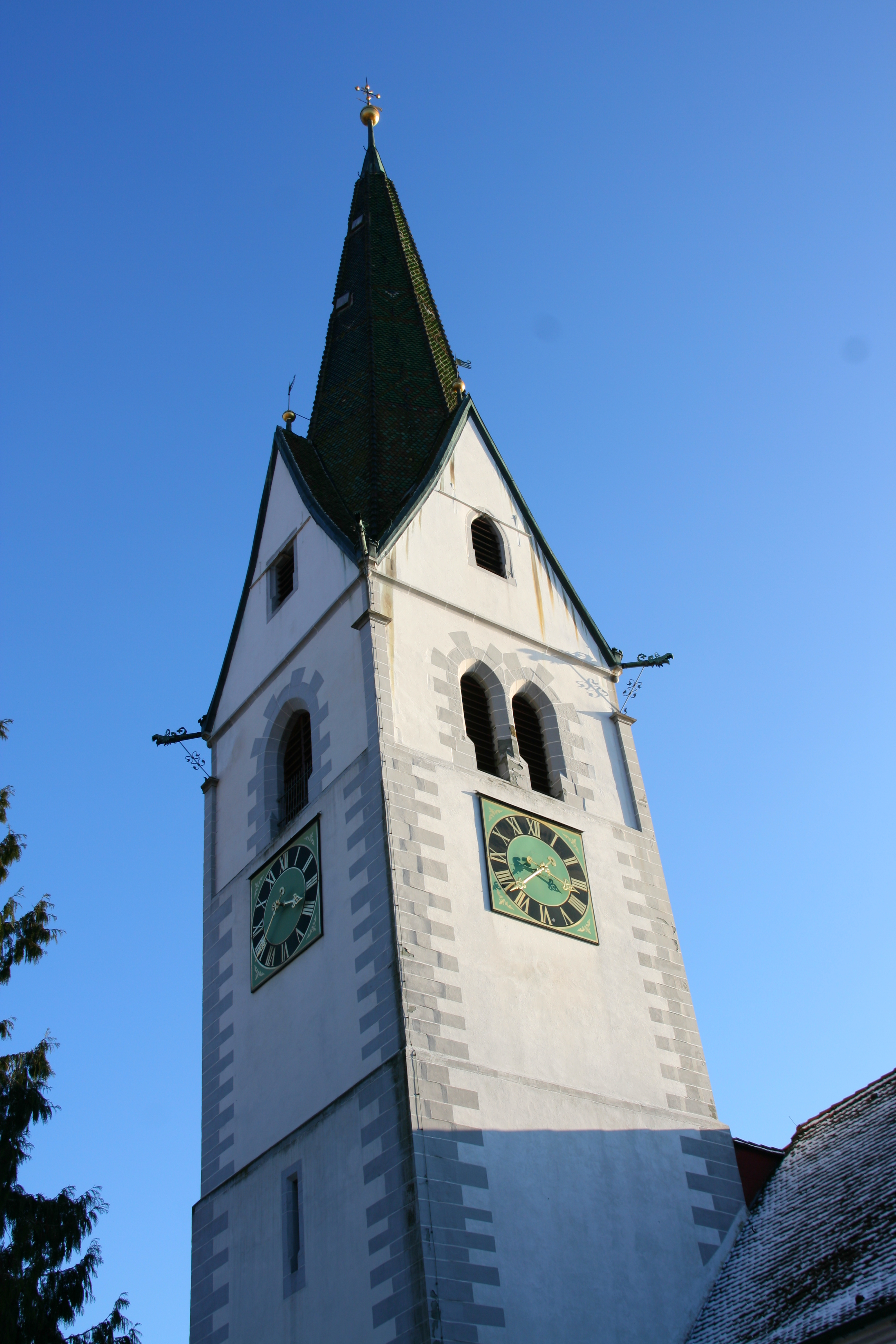 Churchtower of the St. Martin Church in Sipplingen